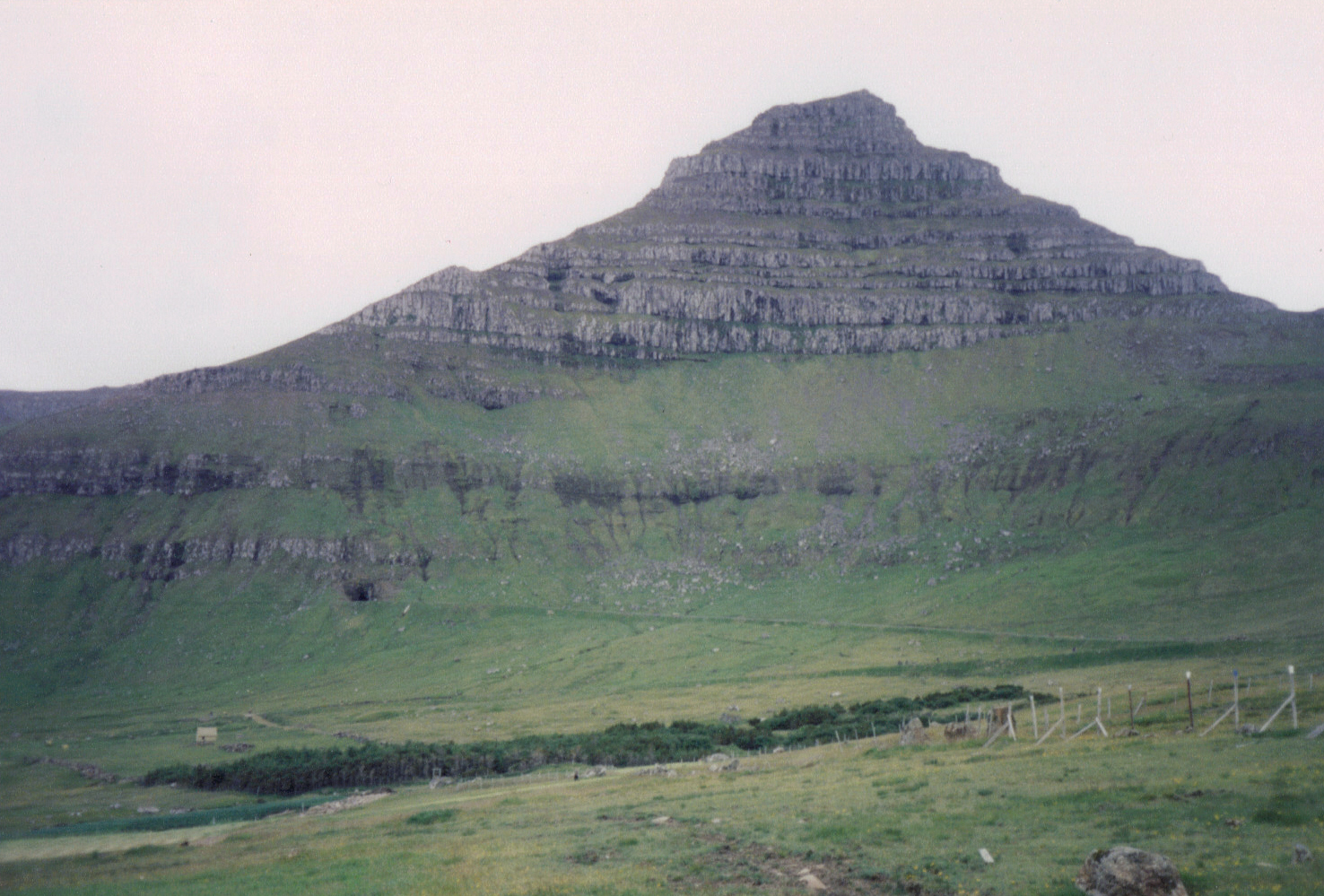 Forest near Mikladalur, Kalsoy, Faroese